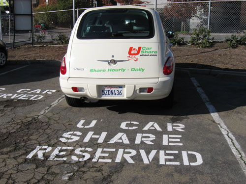 U Car Share vehicle in Berkeley, CA